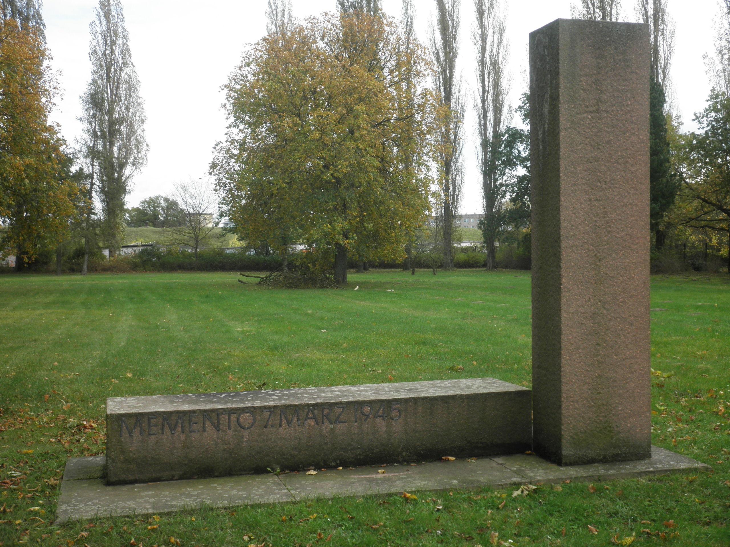 Dessau_Memento_7._March_1945